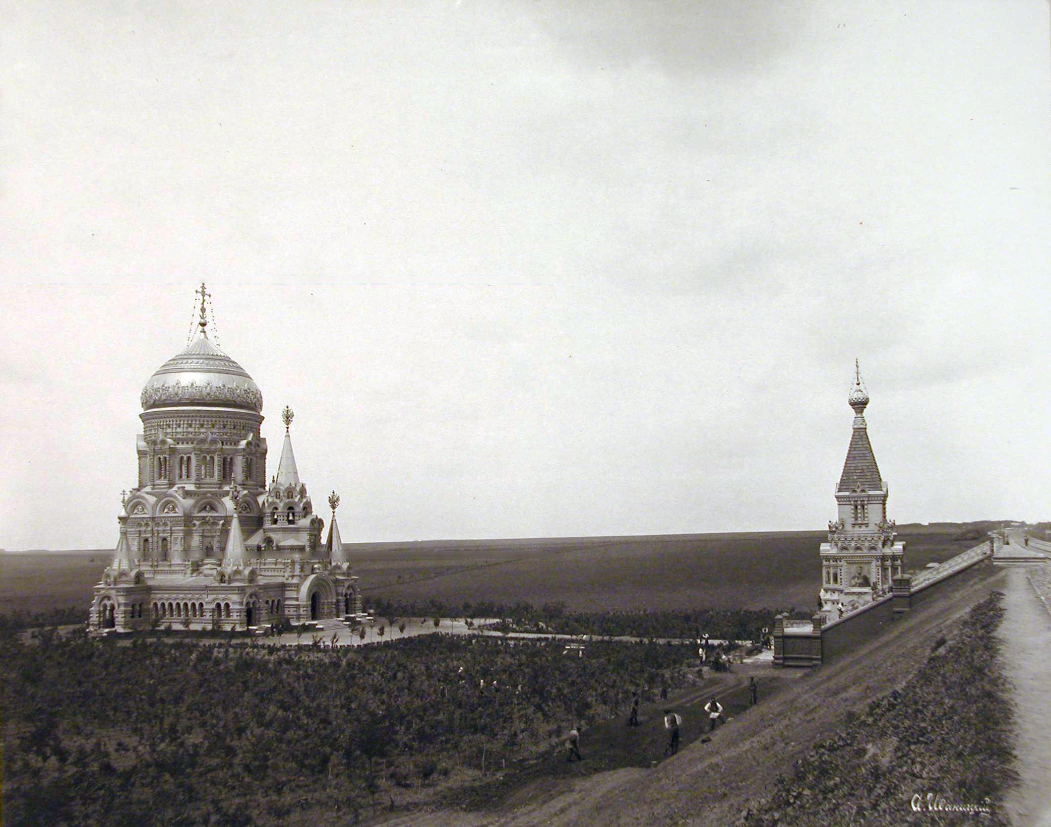 View of the Cathedral of Christ the Savior and the Chapel of the Holy Face of Our Saviour in Borki, erected at the crash site of the Imperial train on 17 October 1888.